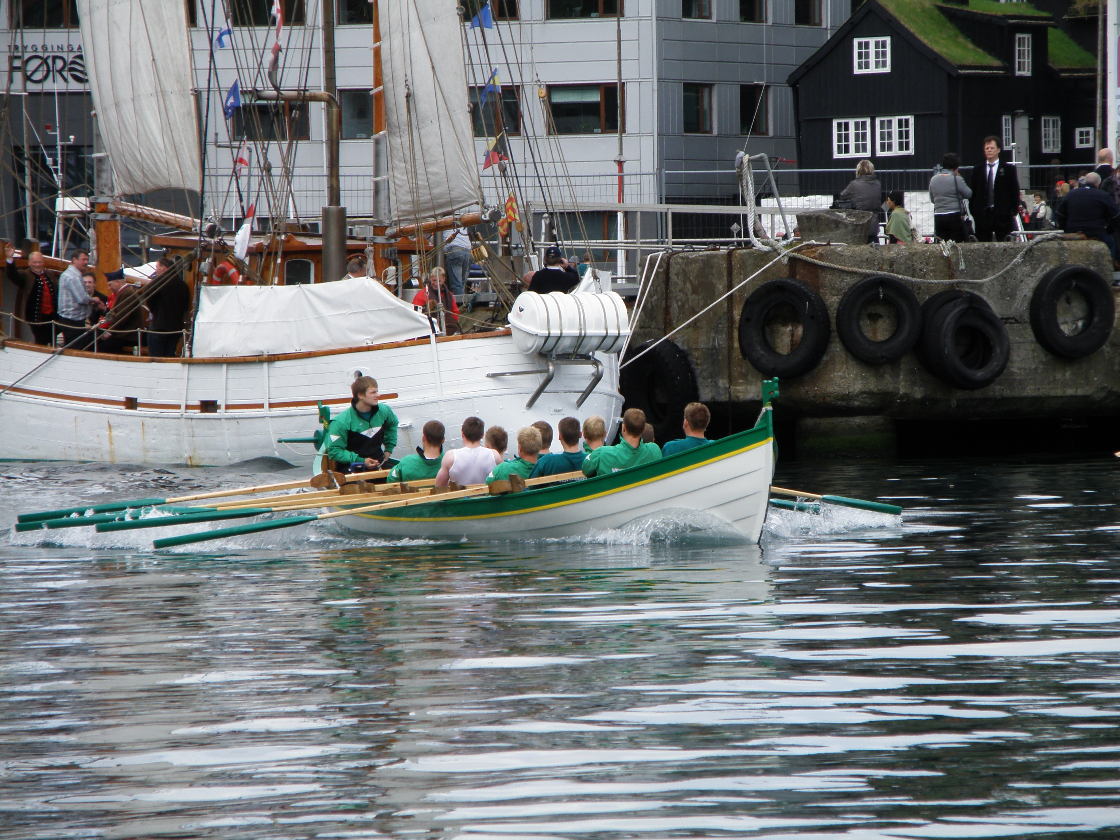 This boat is called Vestmenningur, it is a wooden rowboat from the village Vestmanna in the Faroe Islands. The ship behind it is a sail ship from Klaksvík, which is called Dragin. The boat is on its way out to the start of the Ólavsøka rowing competition 2010 for 10-mannafør for men. In the back ground there is a traditional wooden house with turf roof. This photo was taken on 28 July 2010 in Tórshavn, Faroe Islands. Vestmenningur won this race, they also won silver at the FM 2010 (Faroese Rowing Championship 2010). Føroyskt: Vestmenningur er 10-mannafar. Her rógva teir út til málið á Ólavsøku 2010. Vestmenningur vann Ólavsøkuróðurin og so vunnu teir silvur til FM 2010.